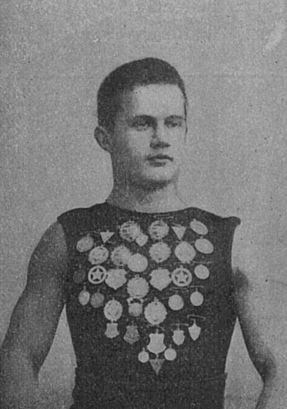 Aarne Salovaara (1887–1945); gymnast, track and field athlete and Olympic medalist; circa 1904